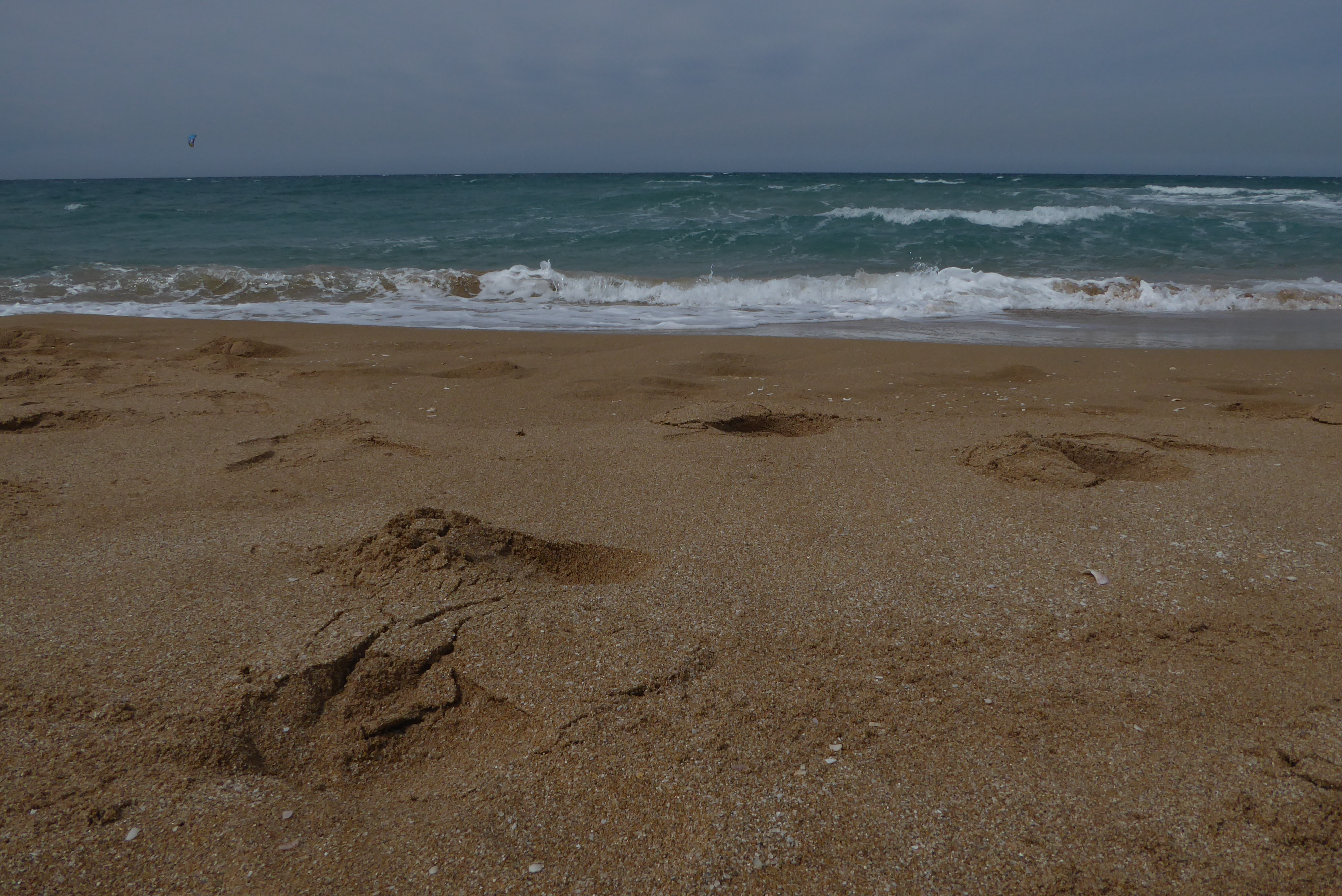 Beaches of Israel